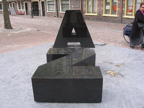 Sculpture A to Z, Oude Groenmarkt, Haarlem, The Netherlands, date: 2007